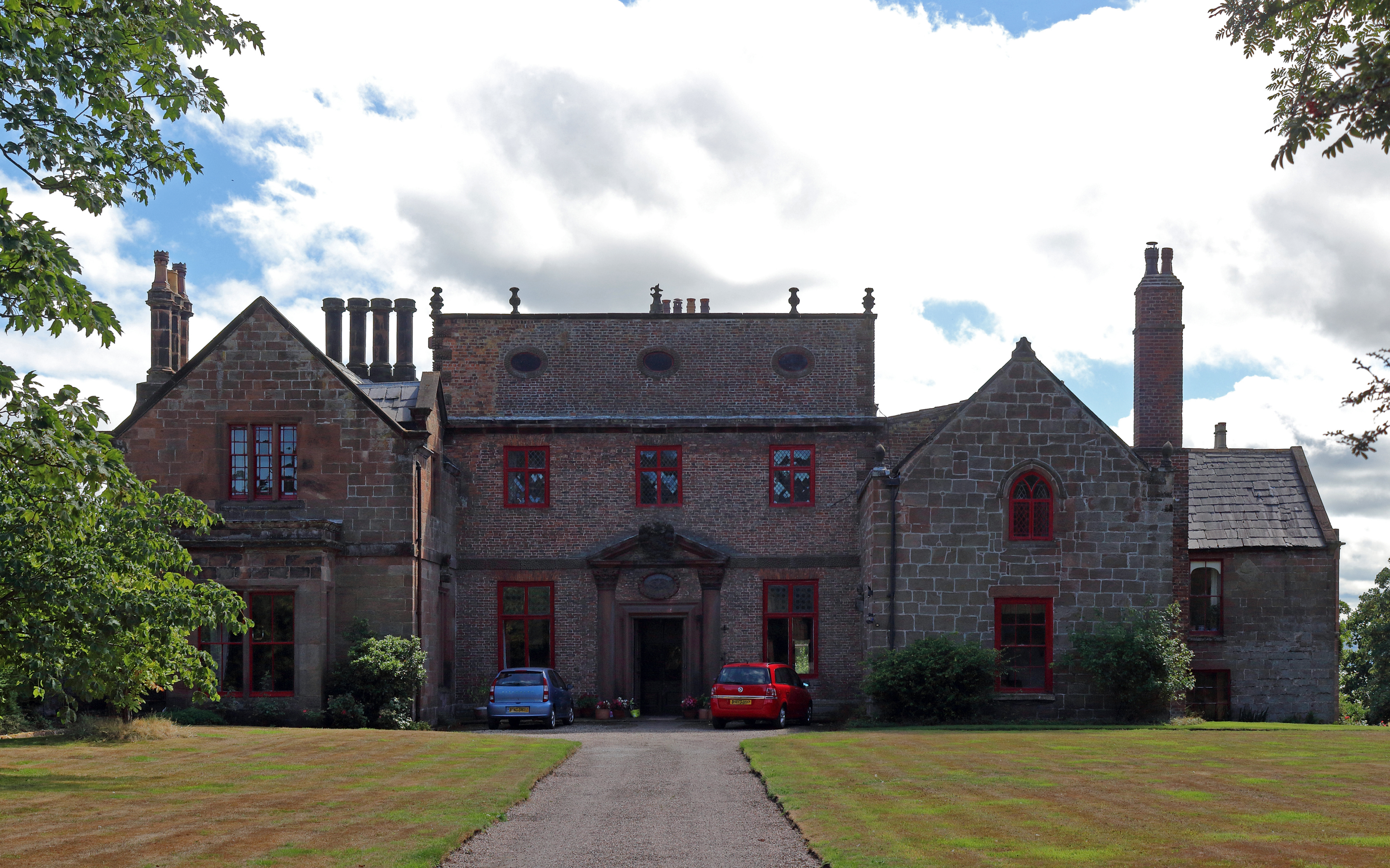 Grade II* mansion in Thurstaston, Wirral, Merseyside. Closer view from the gates